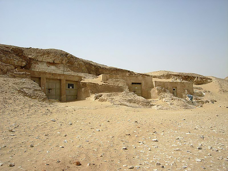 Meir, B-Group Tombs, Egypt